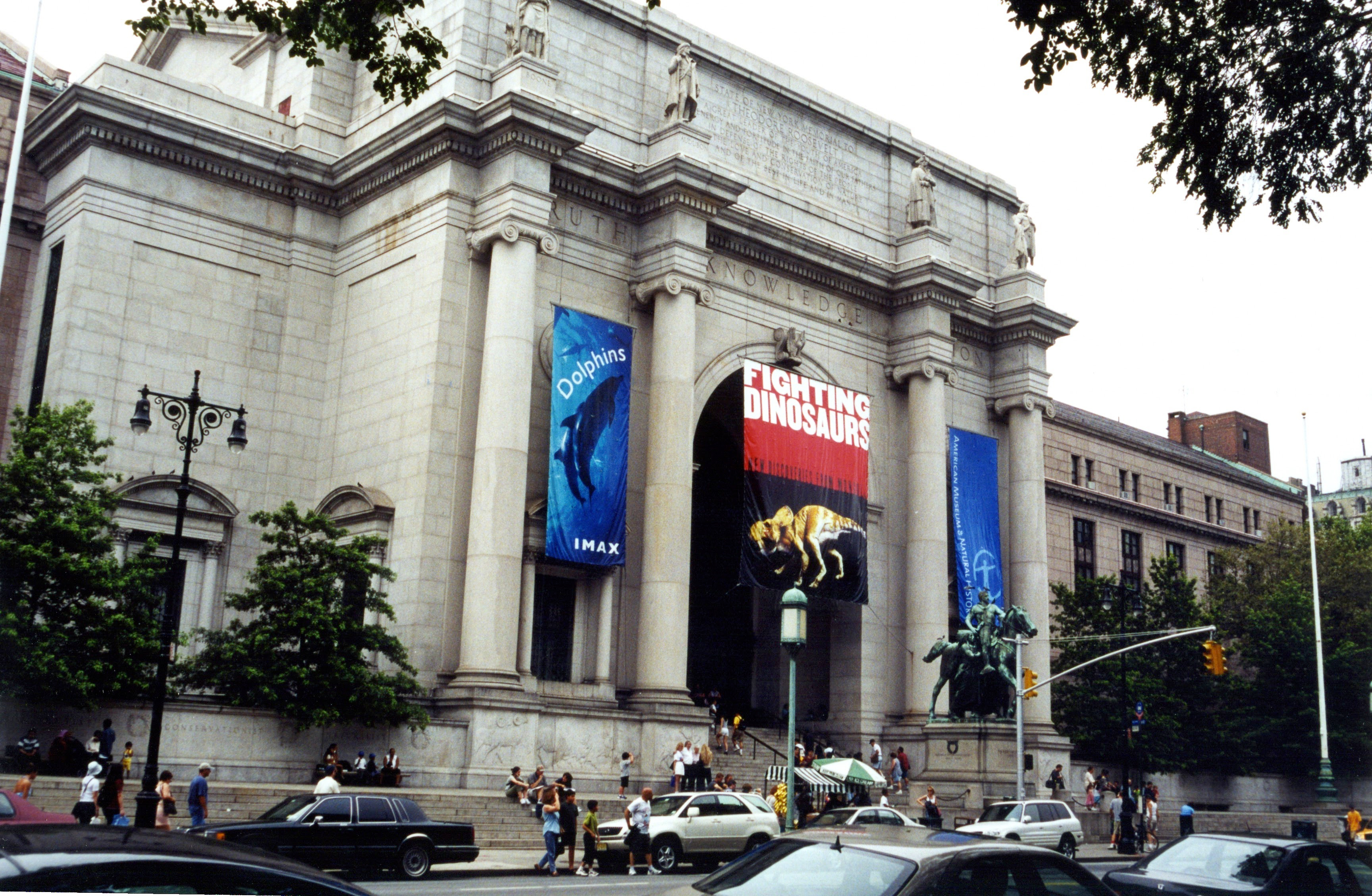 The American Museum of Natural History, New York, 2000, by Rick Dikeman